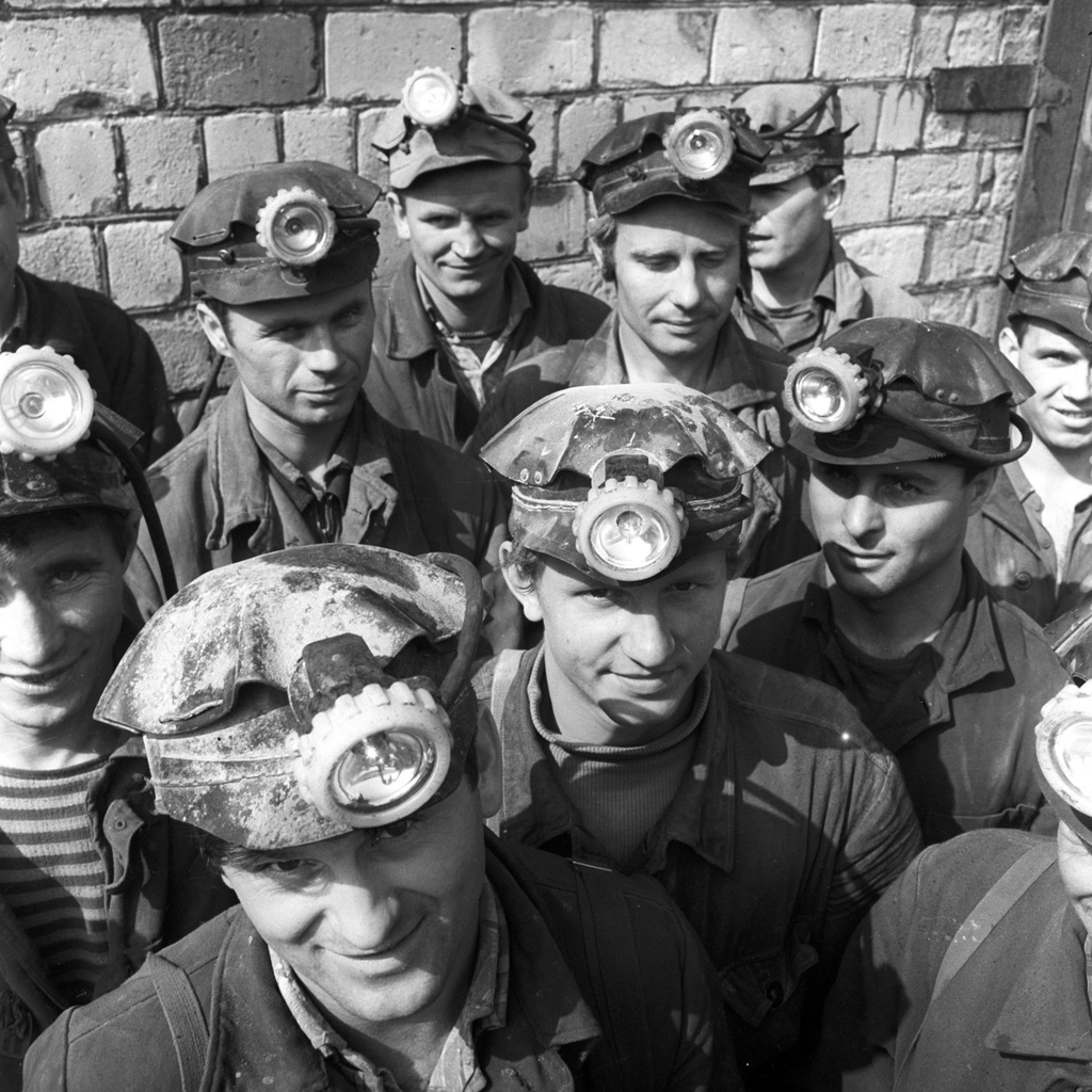 “Workers of Soligorsk potash plant”. A team of workers under the management of team leader Alexander Sinyak. Soligorsk potash plant